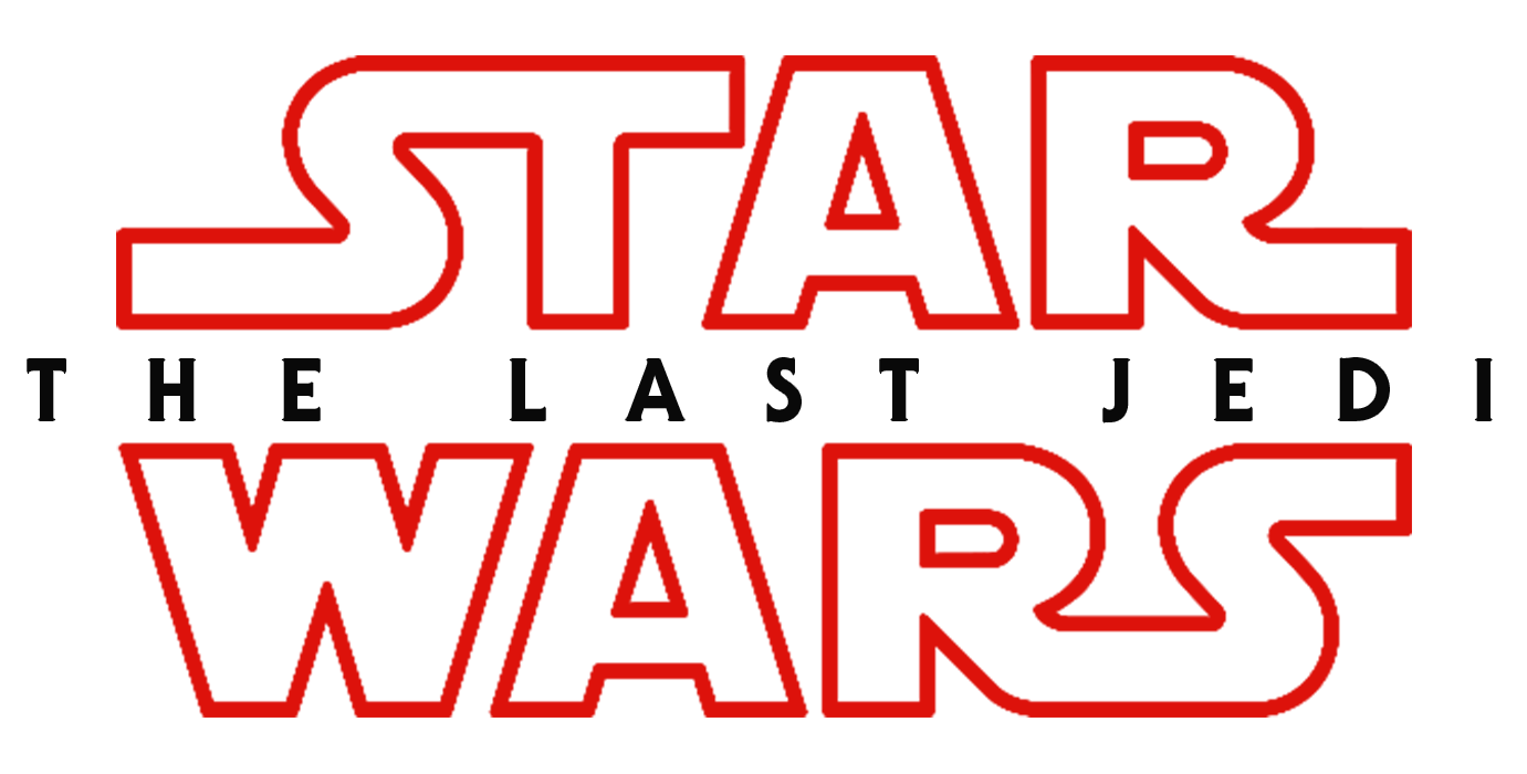 Star Wars: The Last Jedi logo.